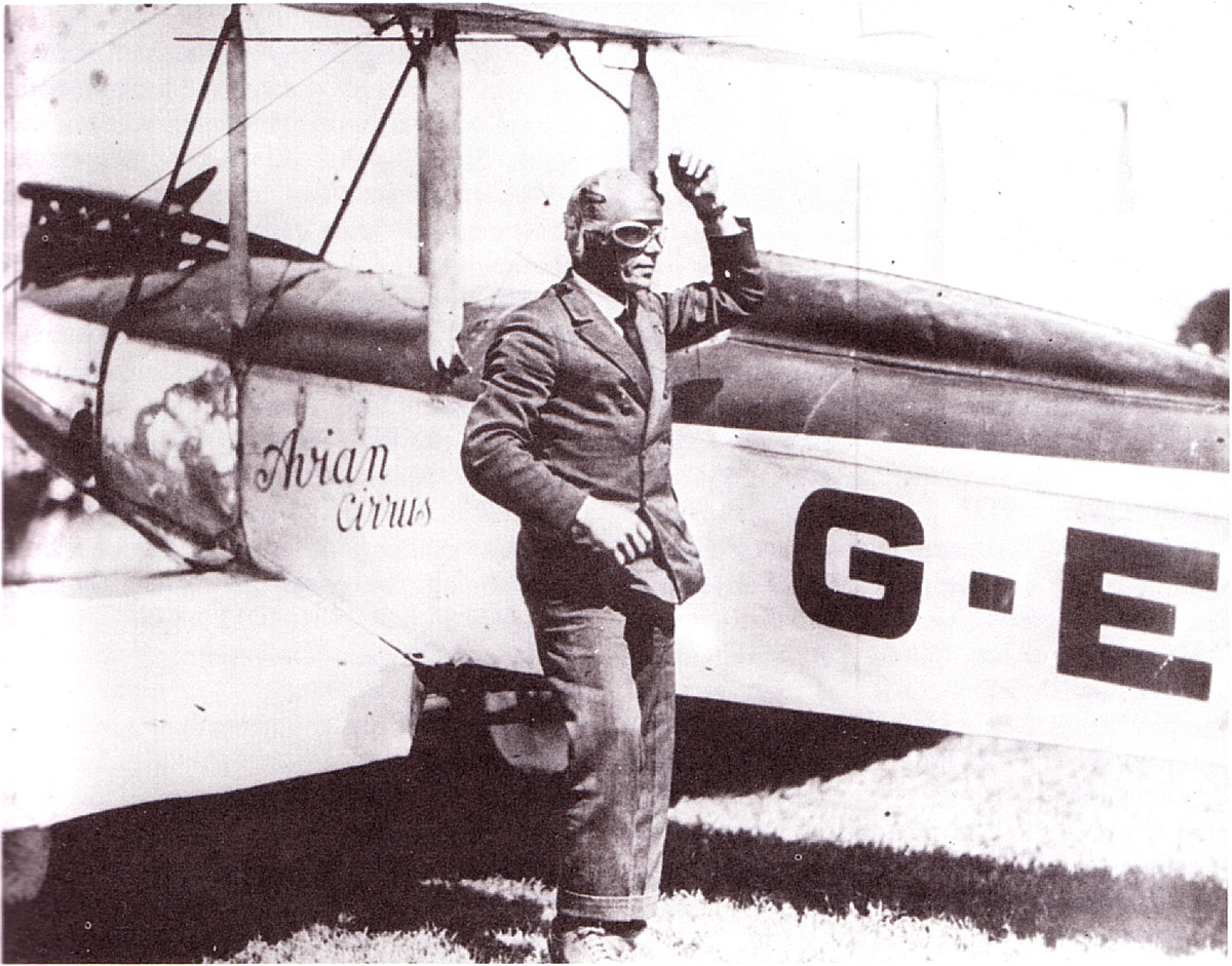 Bert Hinkler and his Avro Avian 1928 2005-11-01 03:52 Martyman 1200×941×8 (262405 bytes) Bert Hinkler an dhis Avro Avian 1928